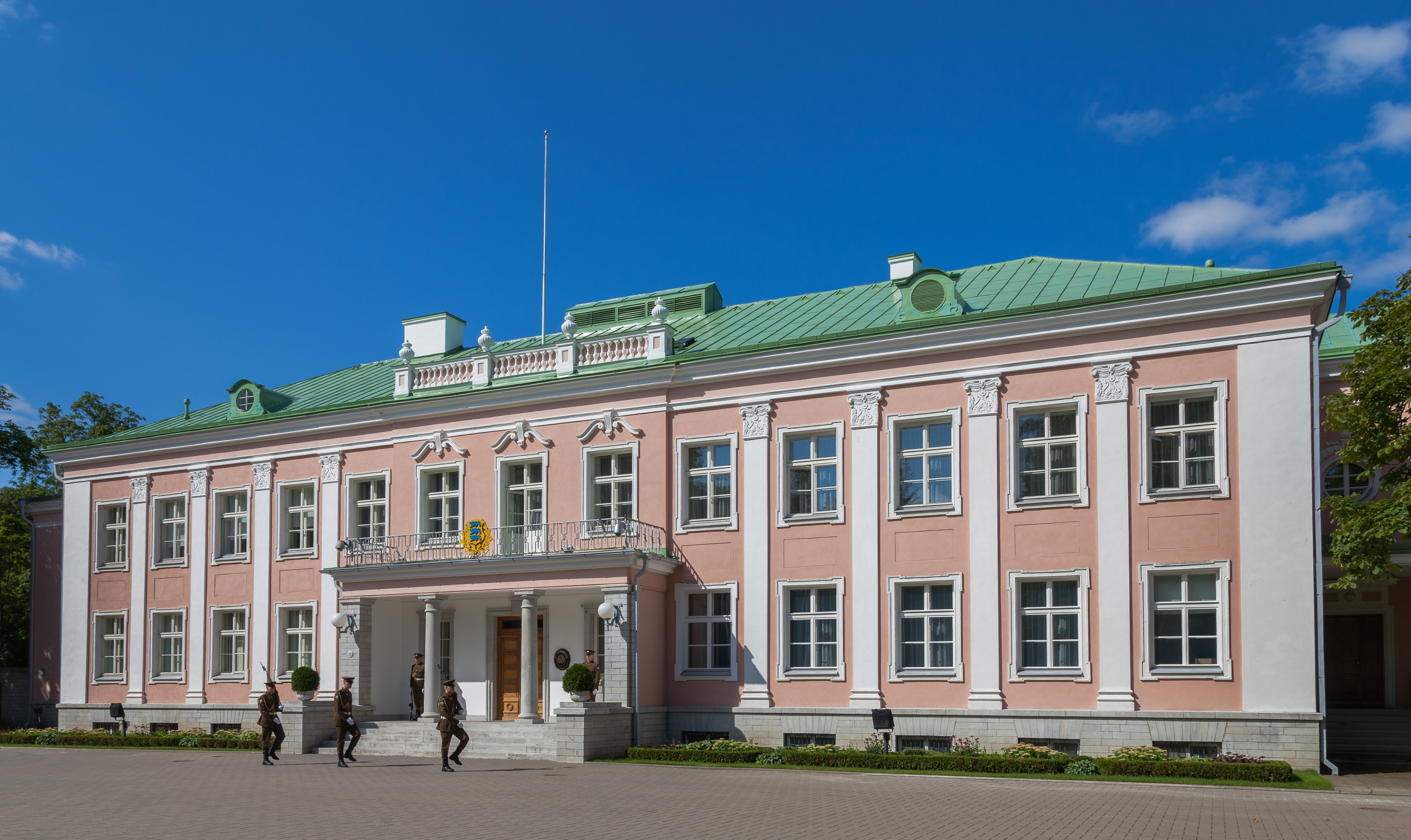 Presidential palace, Tallinn, Estonia